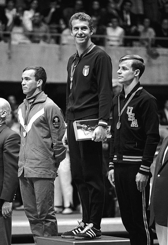 Álvaro Gaxiola, Klaus Dibiasi, Win Young, 1968 Olympics